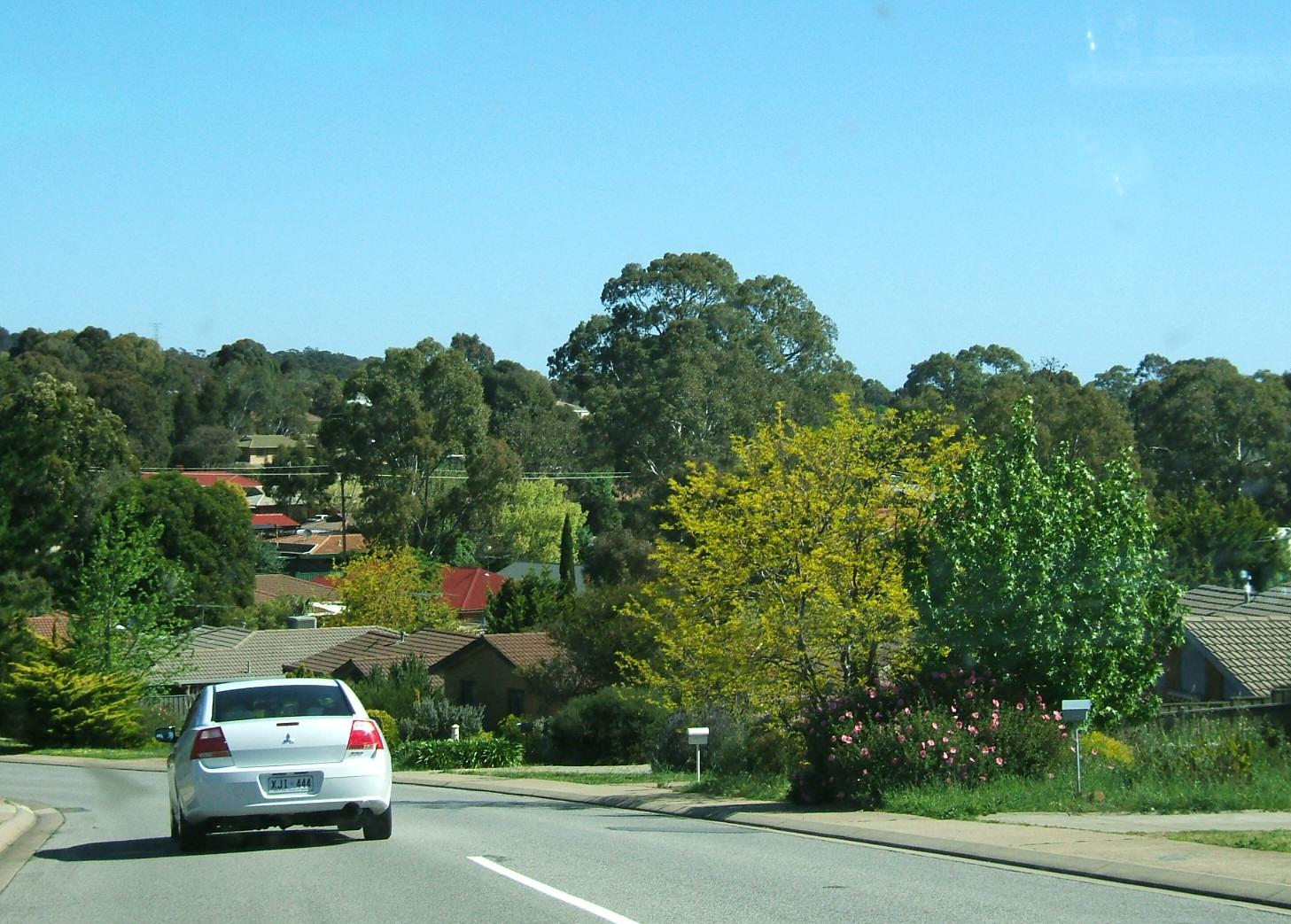 Landscape at Aberfoyle Park